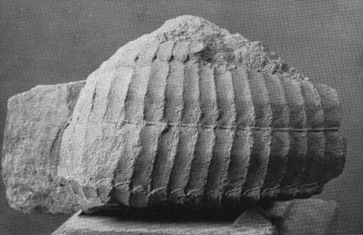 Photograph of cast of Stegomus (=Aetosaurus) arcuatus. Photograph from Marsh, O.C. (1896). "A new belodont reptile (Stegomus) from the Connecticut River Sandstone". American Journal of Science 2: 59-62.